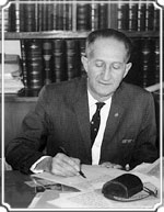 Lic. D. Antonio Guzmán L.